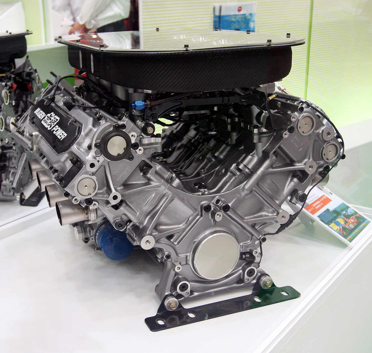 Mugen MF-408S engine for Team Terramos at the 2008 24 Hours of Le Mans. 3,997cc V8 engine (90 degrees), DOHC.